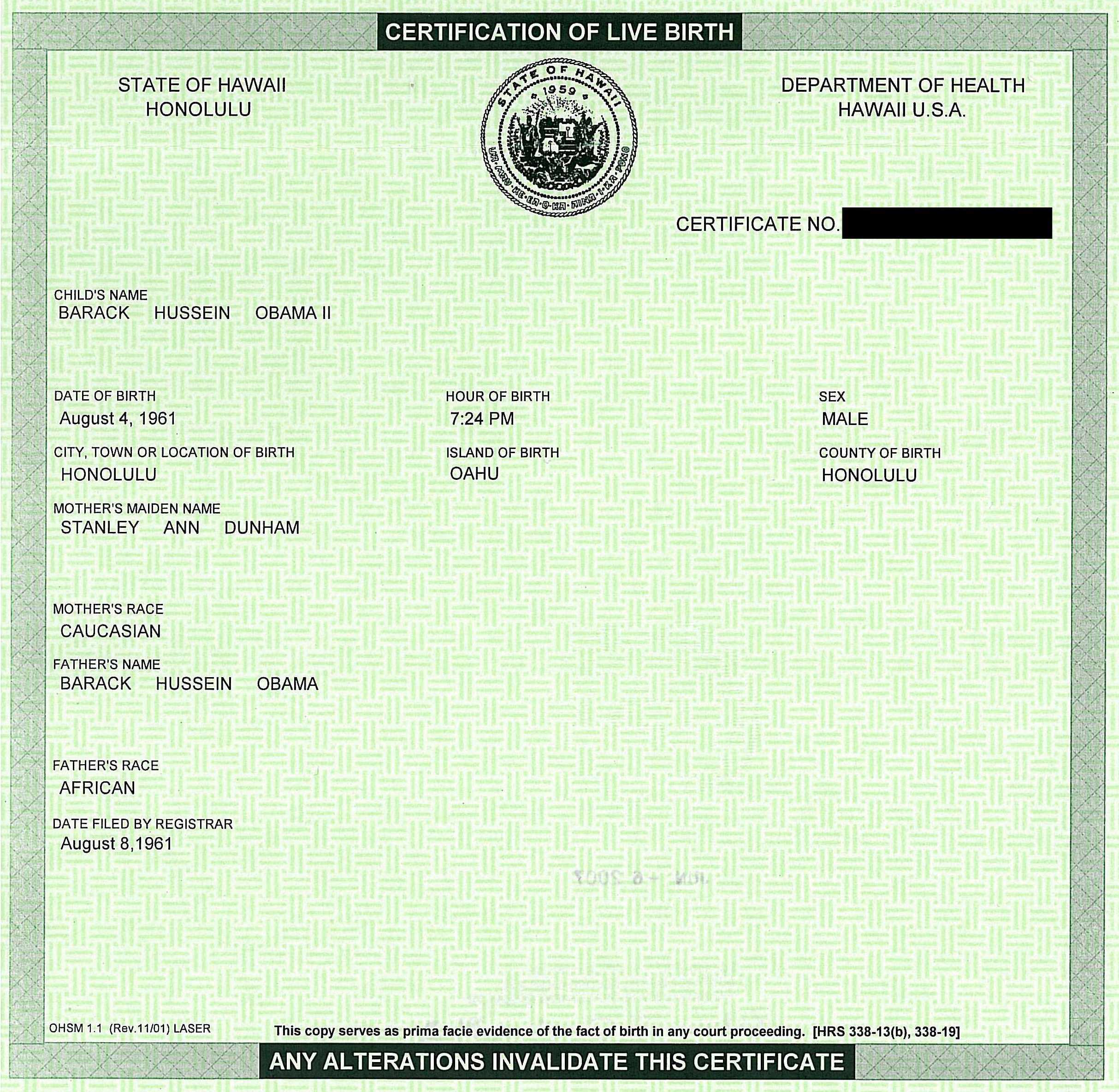 A scanned image of United States President Barack Obama's Certification of Live Birth, as released by his campaign to Markos Moulitsas of the Daily Kos website. The Barack Obama campaign posted the same Certification of Live Birth image on its own website, labeling it as a "Birth Certificate" to counter rumors against the candidate. This larger version, retreived from the Daily Kos website provides more detail. The Daily Kos is reliable enough to post a copy of a document which looks identical to the one on the Barack Obama campaign website at